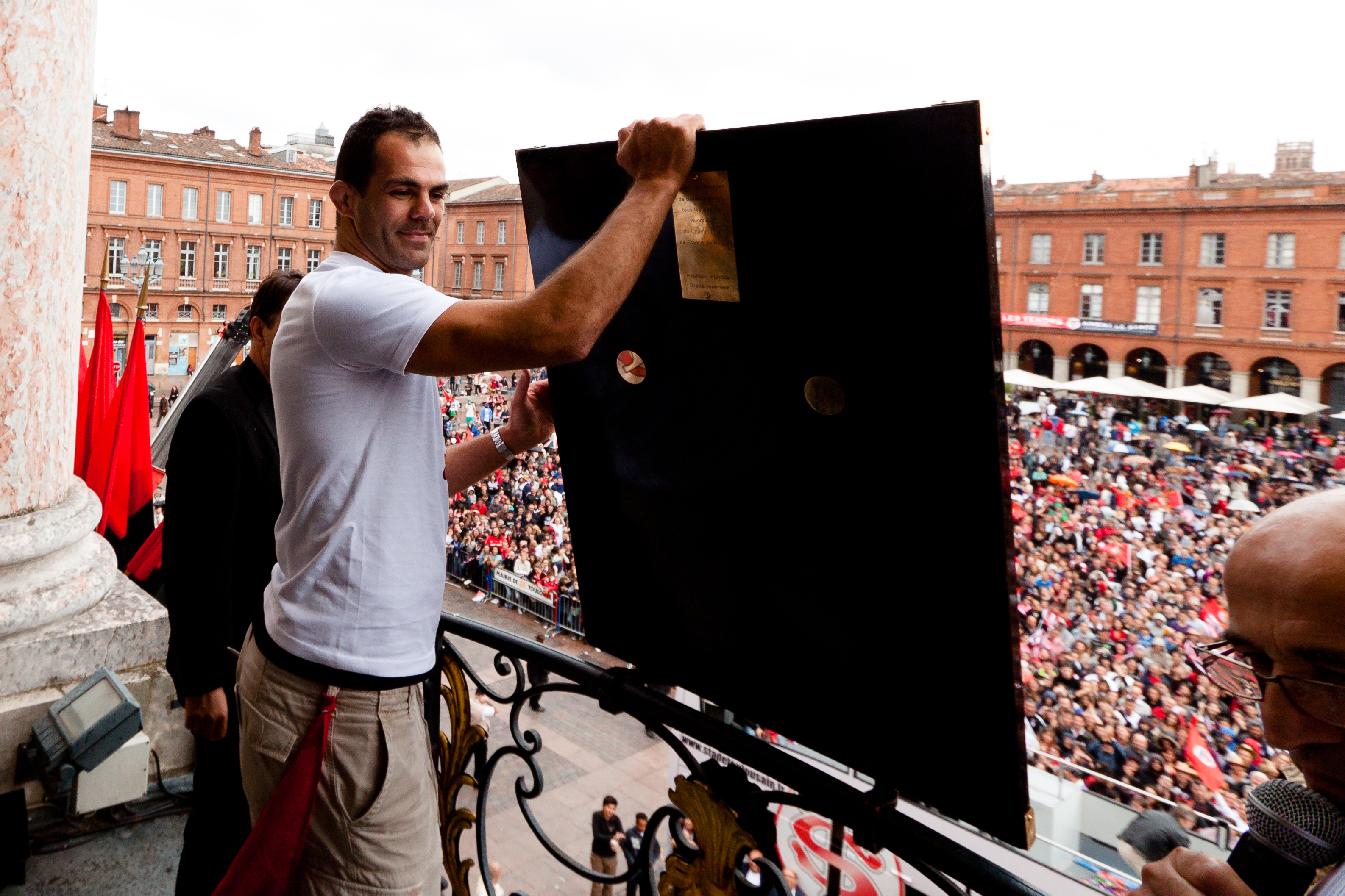 Grégory Lamboley in the Capitole de Toulouse to celebrate the 19th national championship title of the Stade toulousain.